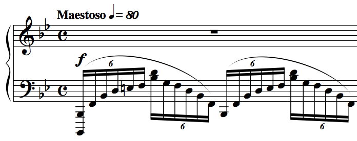 The first few measures of Preludes, Op. 23, No. 2. The set, composed by Sergei Rachmaninoff in 1901 was published before 1923, and thus is in the public domain.